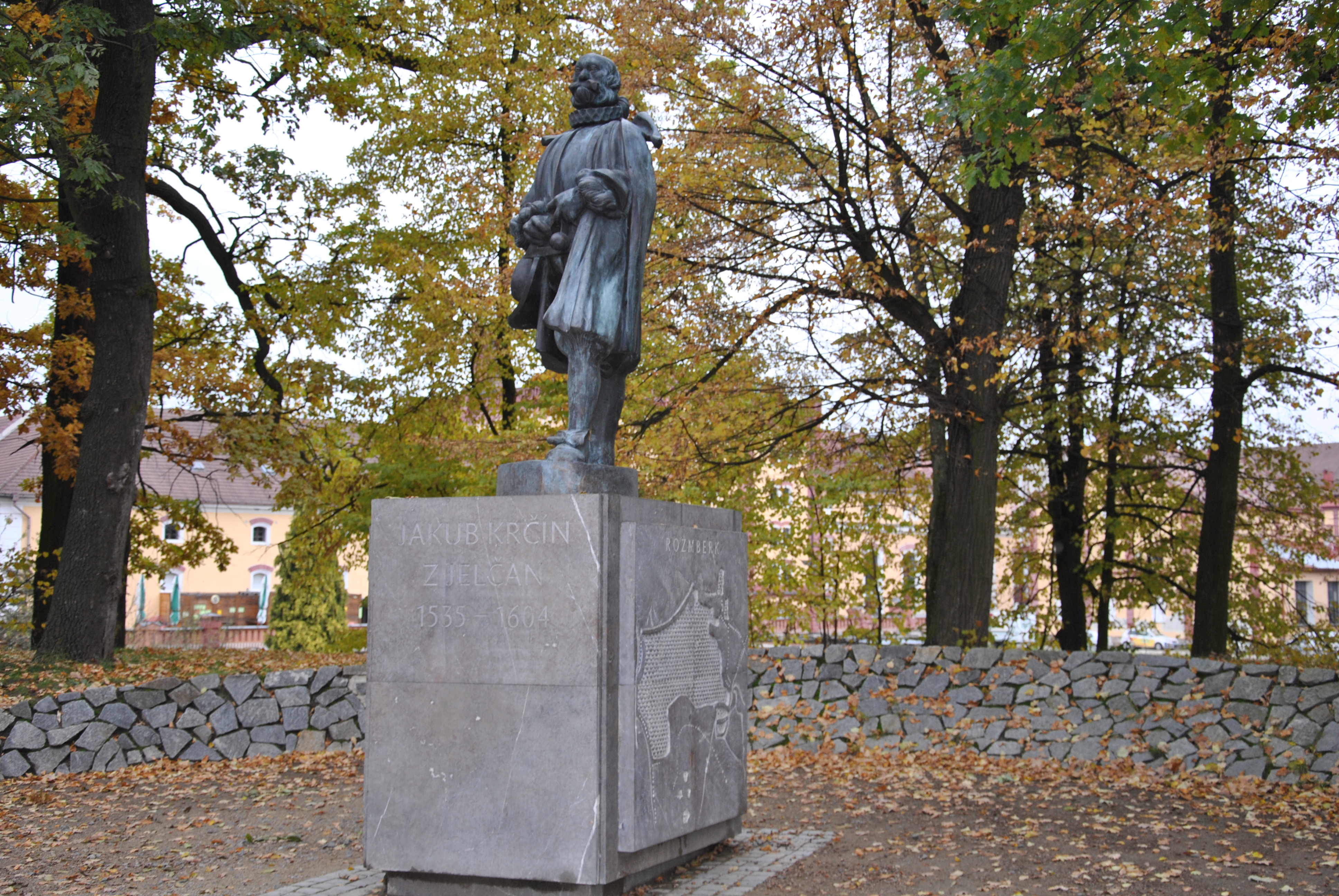 Jakub Krcin